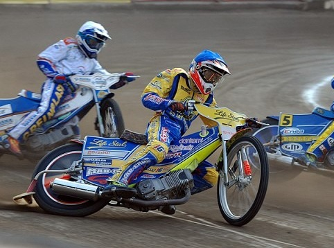 Michael Jepsen Jensen in "Stal" - season 2012.